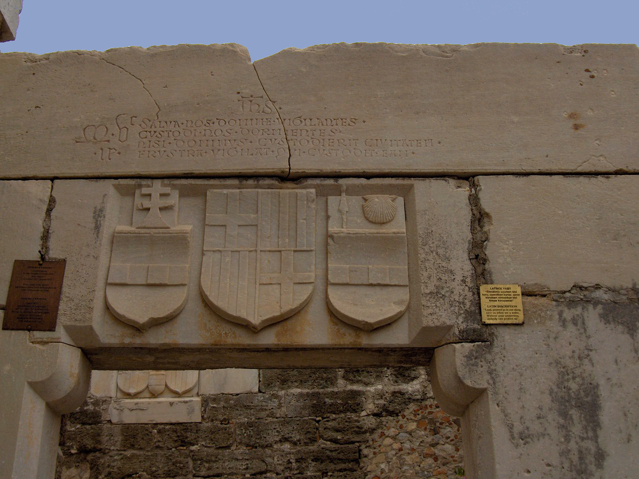 Inscription above the (quartered) coat of arms of the Order and Grand Master D'Amboise, St. Peter's castle; Bodrum, Turkey The inscription says : Salva nos domine vigilantes (Lord, protect us while we are on watch,) Custodi nos dormientes. (Take care of us while we are asleep.) Nisi dominus custodierit civitatem (If the Lord did not protect the city) frustra vigilat qui custodit eam. (those who are in charge of it would vainly be on guard.)